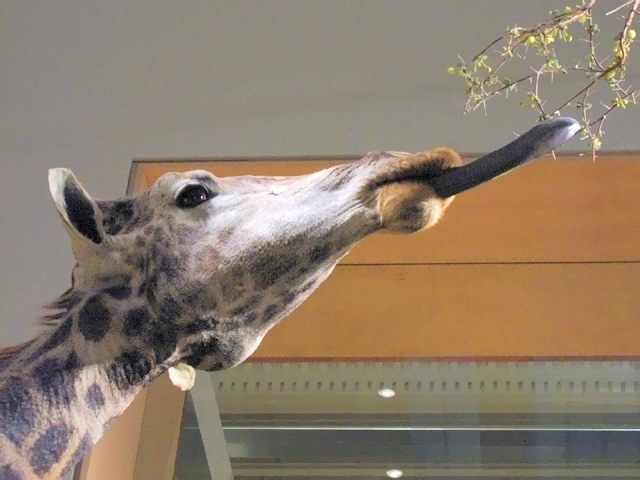 Closeup of the head of a giraffe, tongue extended; specimen at the National Museum of Natural History.